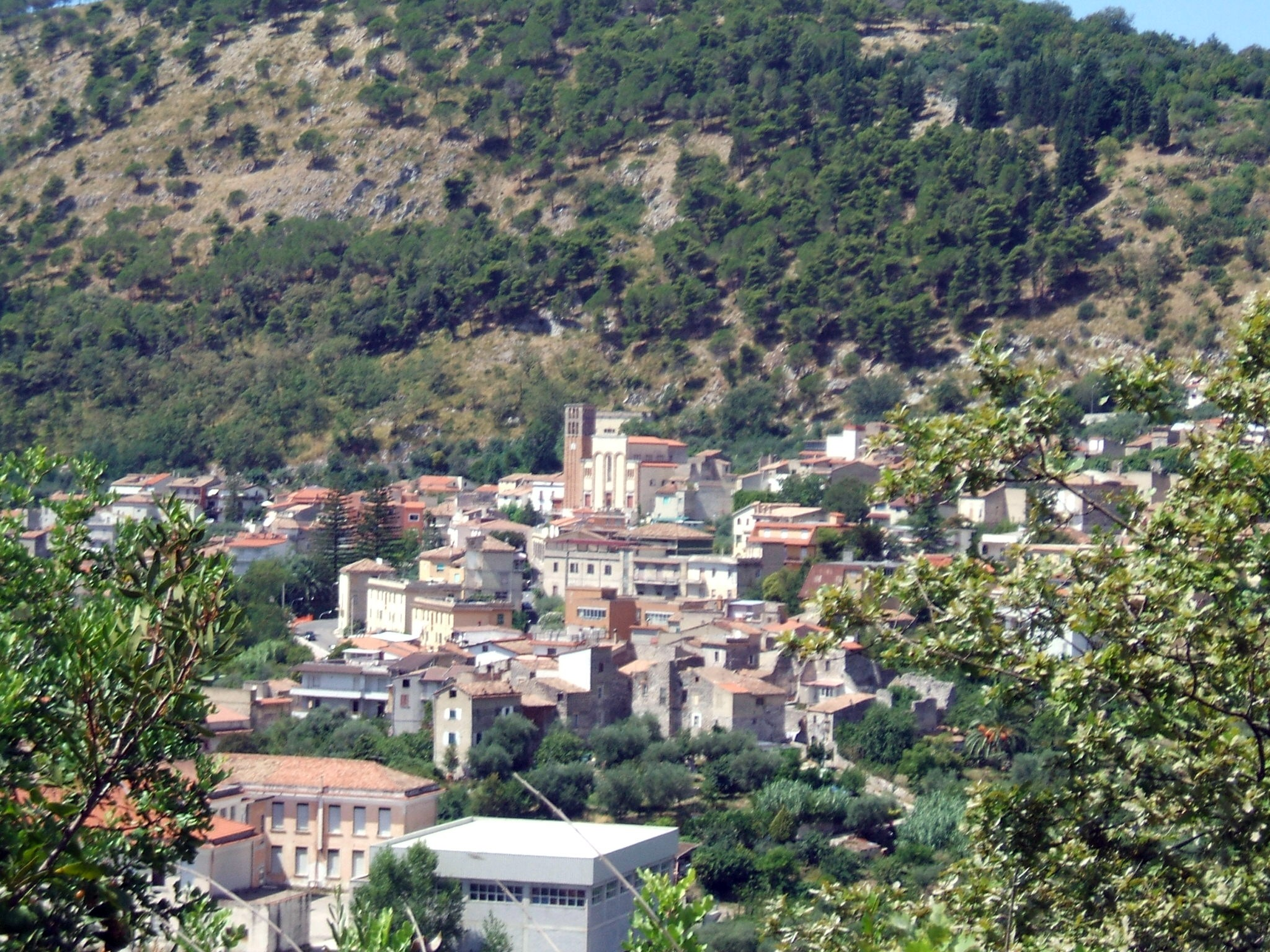 View from the Castelforte town center of the Santi Cosma e Damiano (Latina Province, Latium Region, Italy) town center.